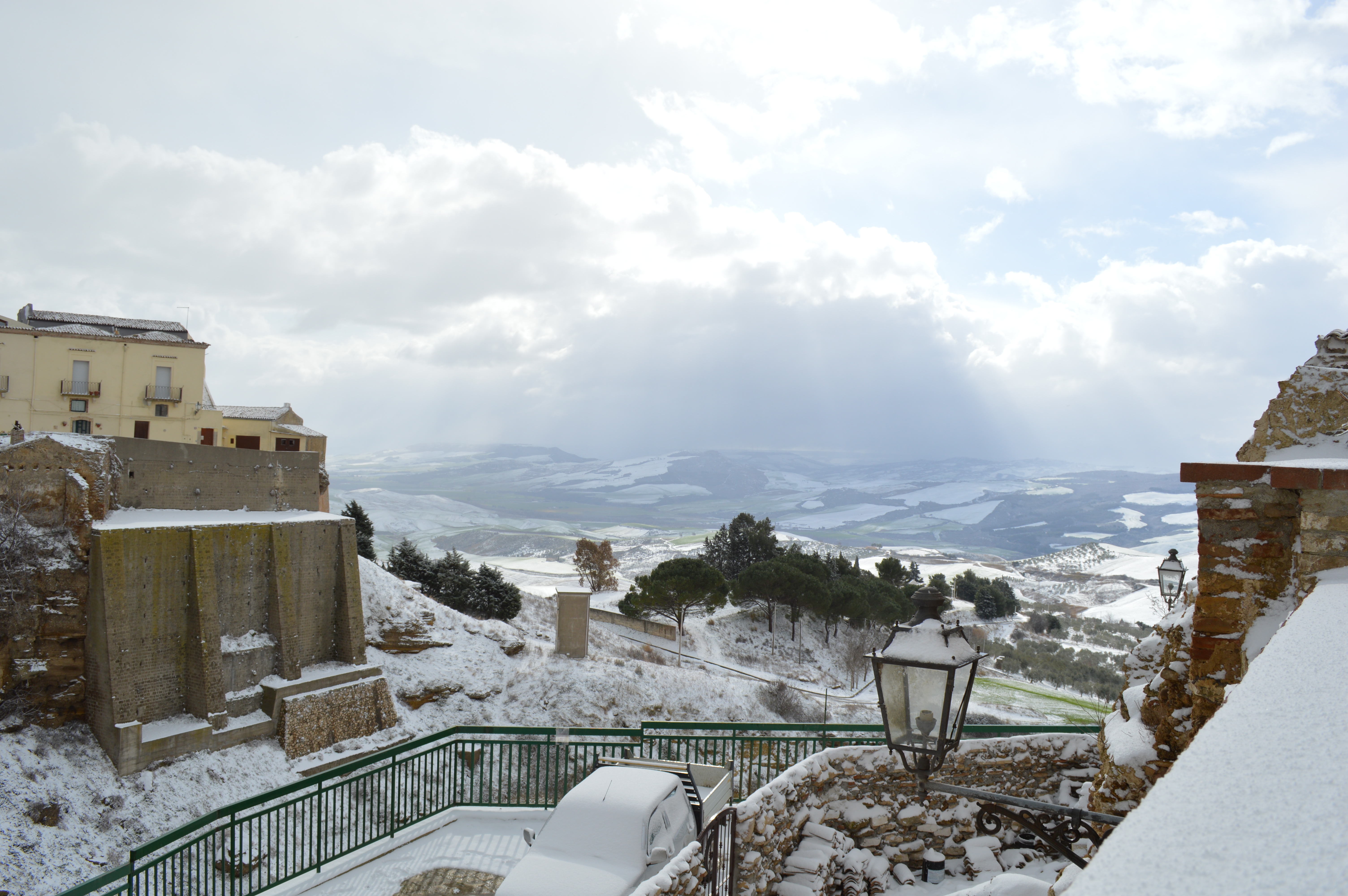 Irsina - Nevicata 2014